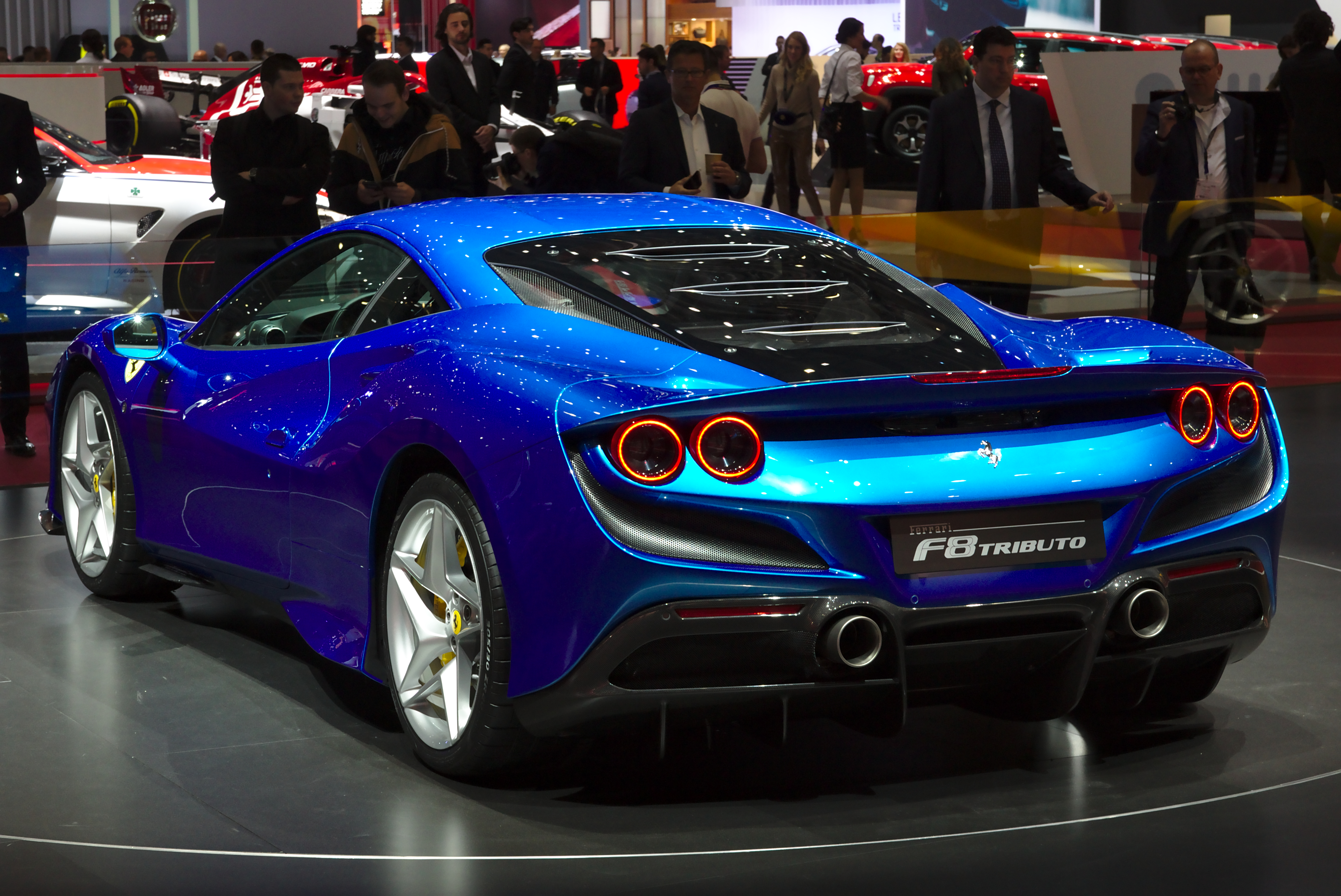 Ferrari F8 Tributo at Geneva Motorshow 2019